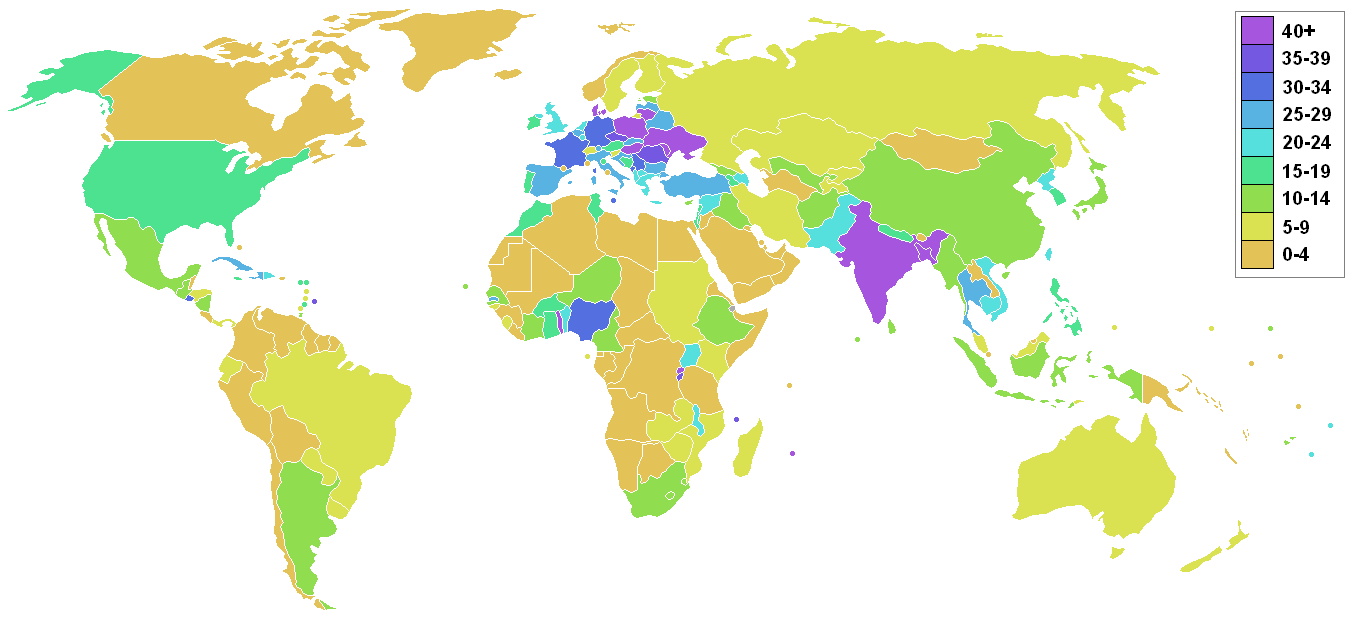 Arable land percentage by country, as listed on CIA factbook, accessed June 2006. Made from blank world map on commons.